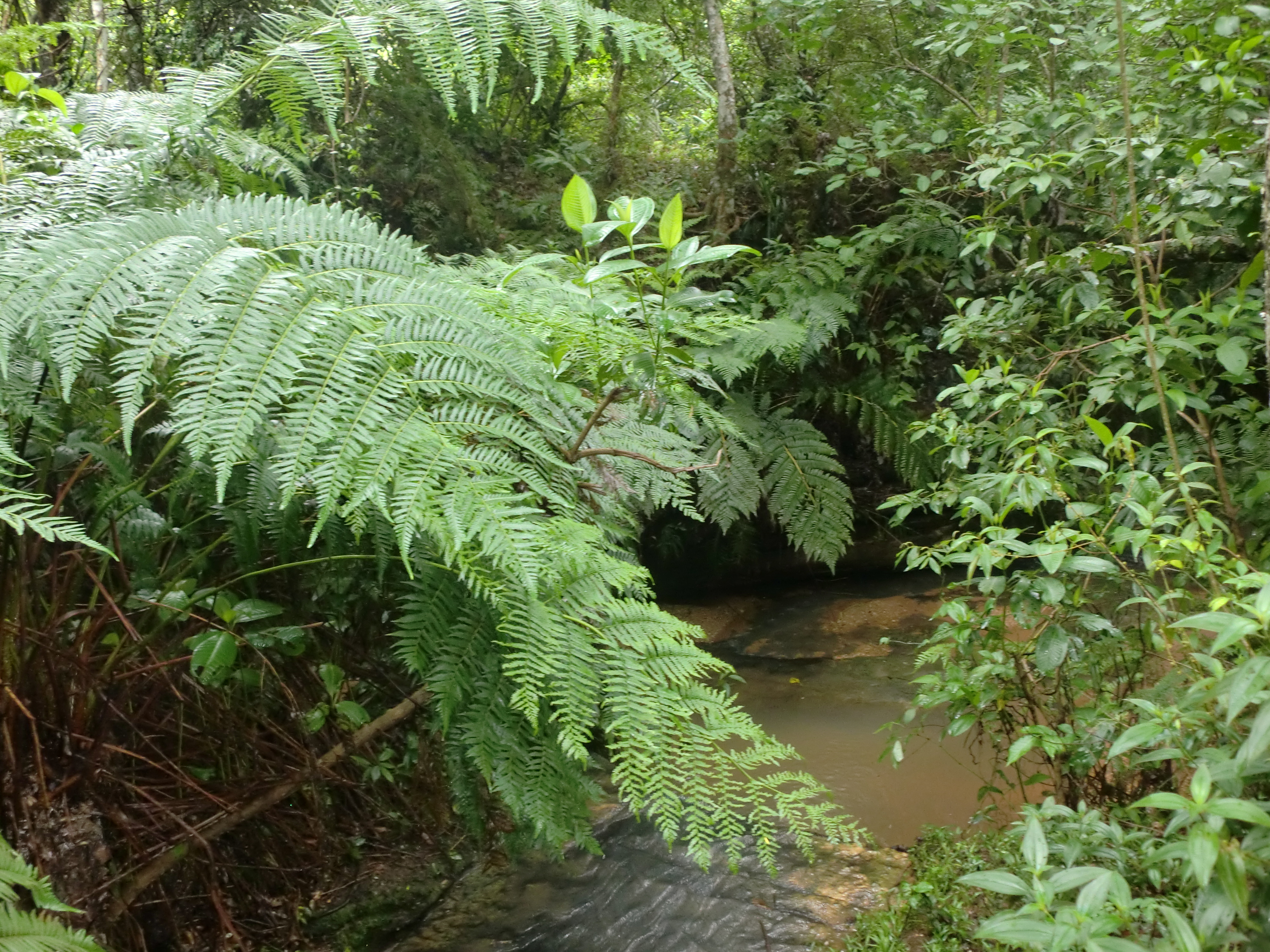 Stream in Quiindy City